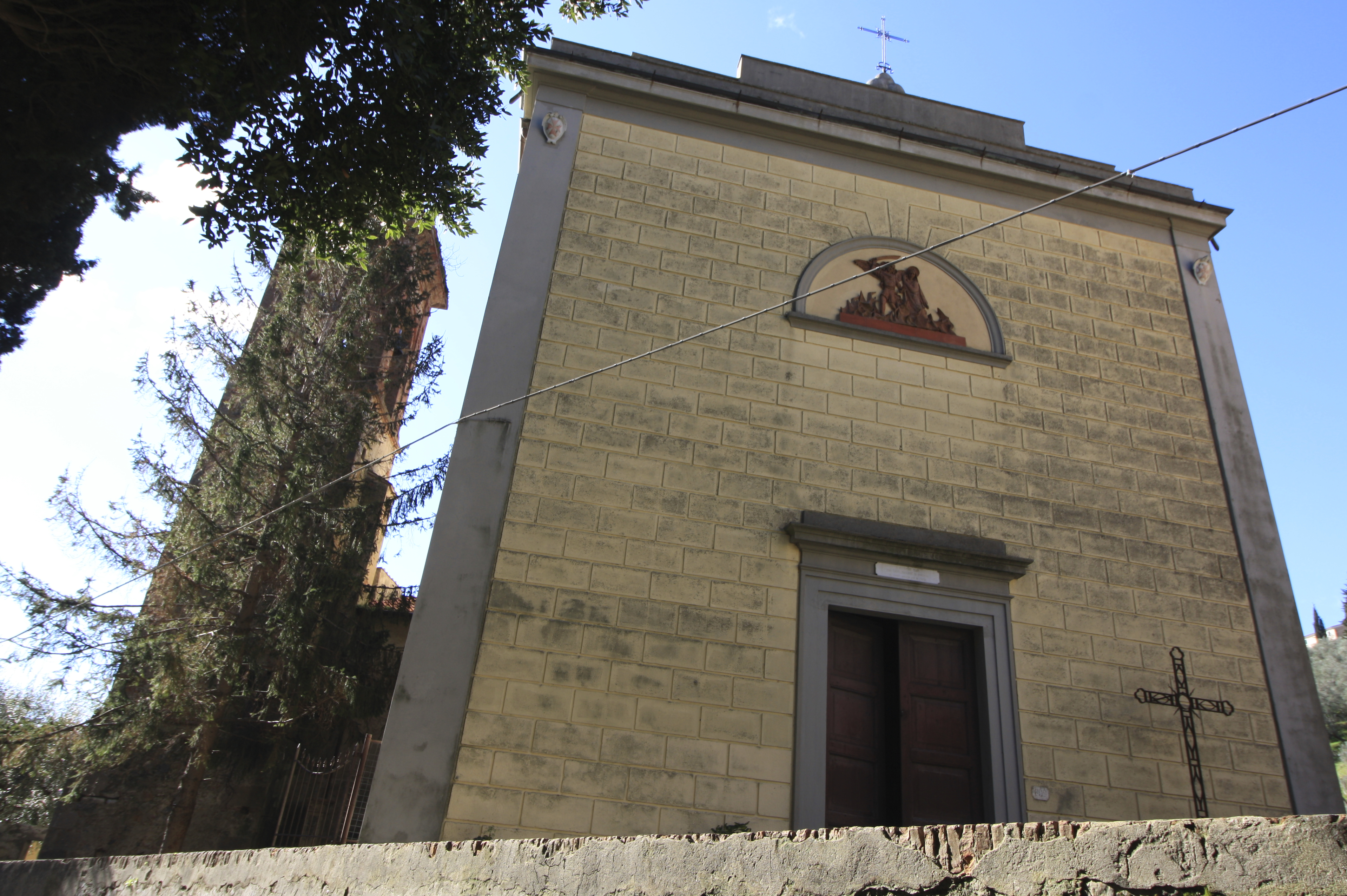 Church San Michele Arcangelo, Castelmaggiore, hamlet of Calci, Province of Pisa, Tuscany, Italy